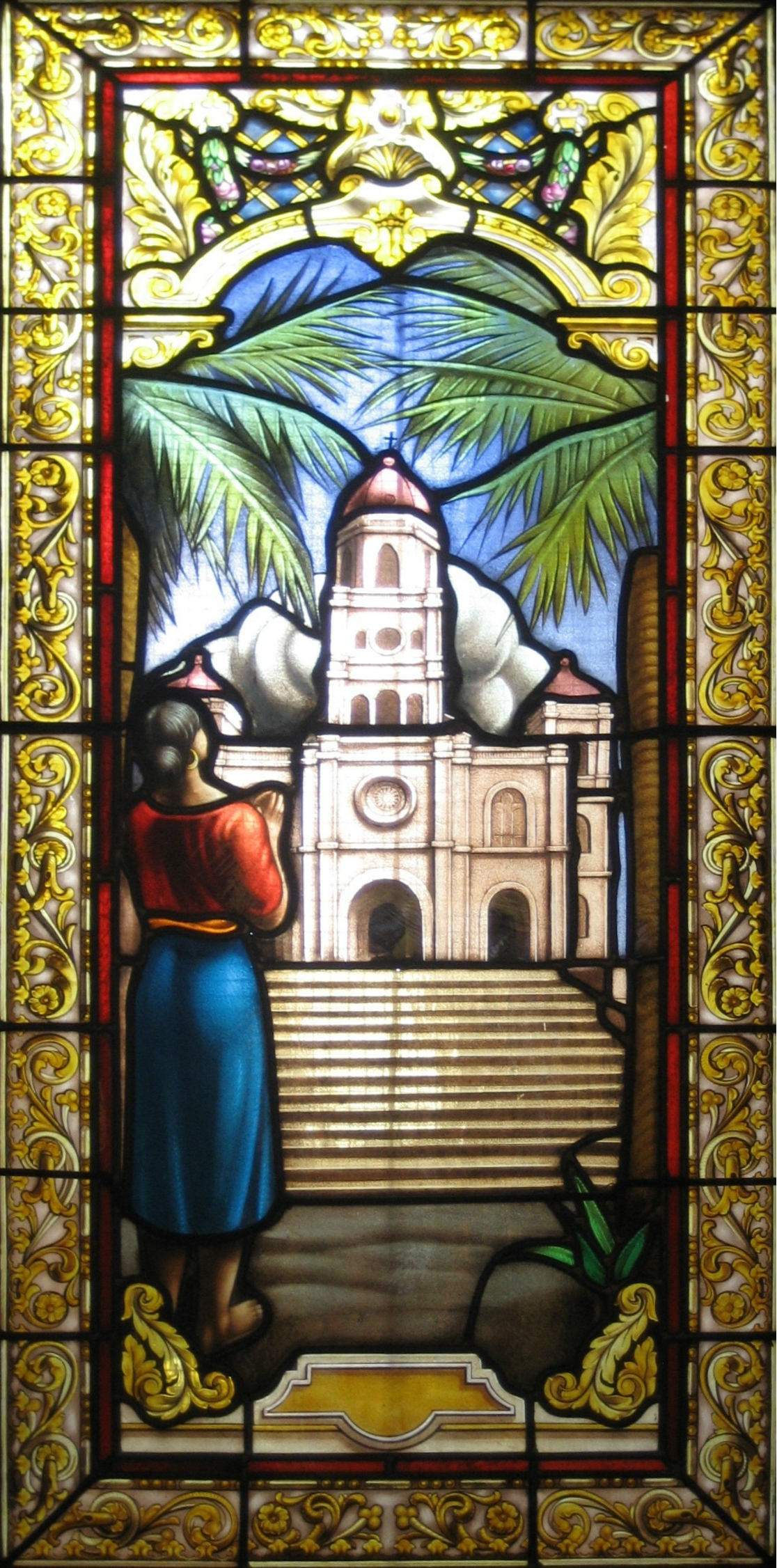 Stained glass window in the San José de Jatibonico Church sanctuary, in Jatibonico, Cuba.